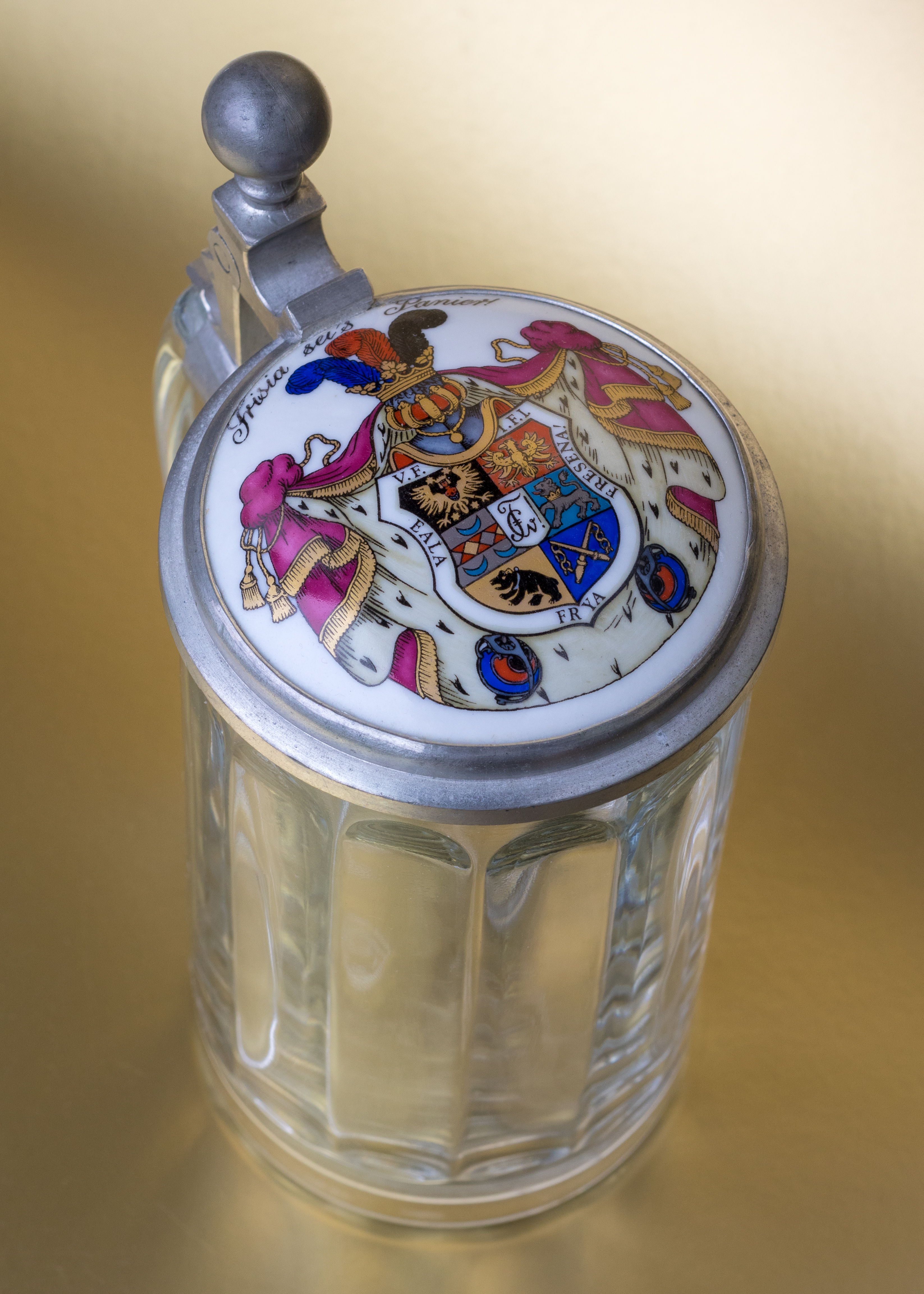 Beer glass of the German student fraternity Corps Frisia Göttingen. This is one of two pieces ever made with an ermine coat surrounding the coat of arms. It has been manufactured to celebrate the reestablishment of Frisia’s tradition as a Corps. Manufacture Hans Otto Arnold, Göttingen (2002)